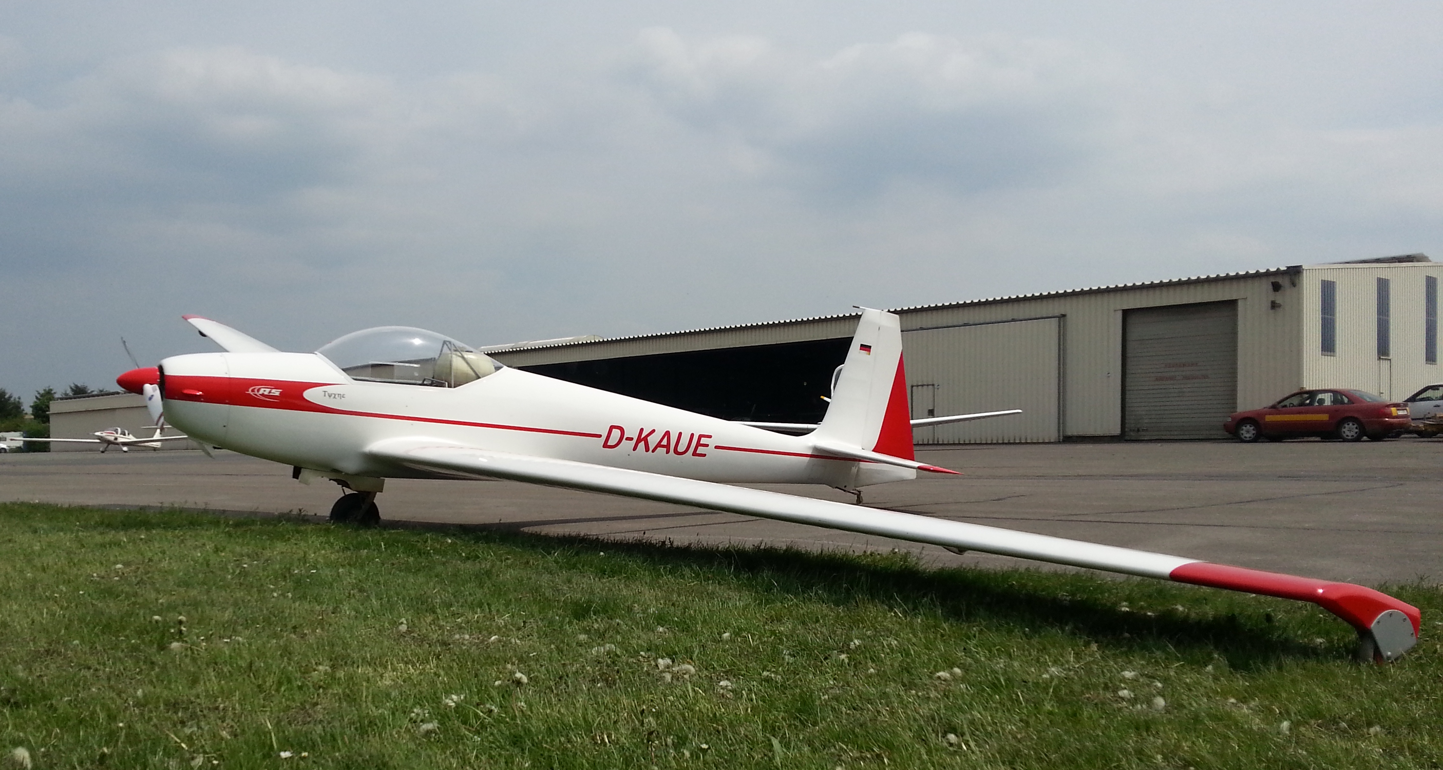 ASK 14 Motorglider at Wallduern Aerodrome/Germany